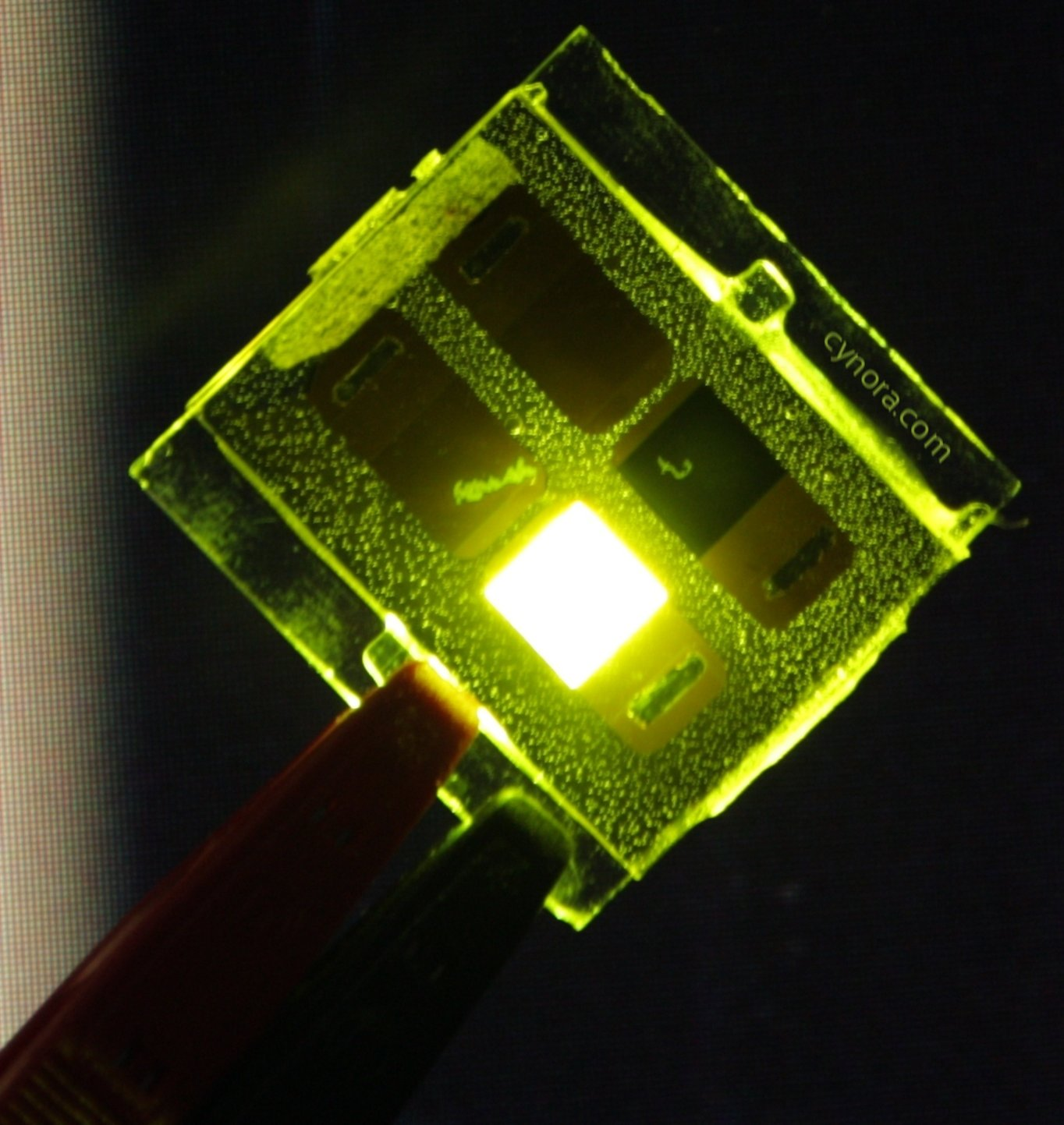 OLED Device